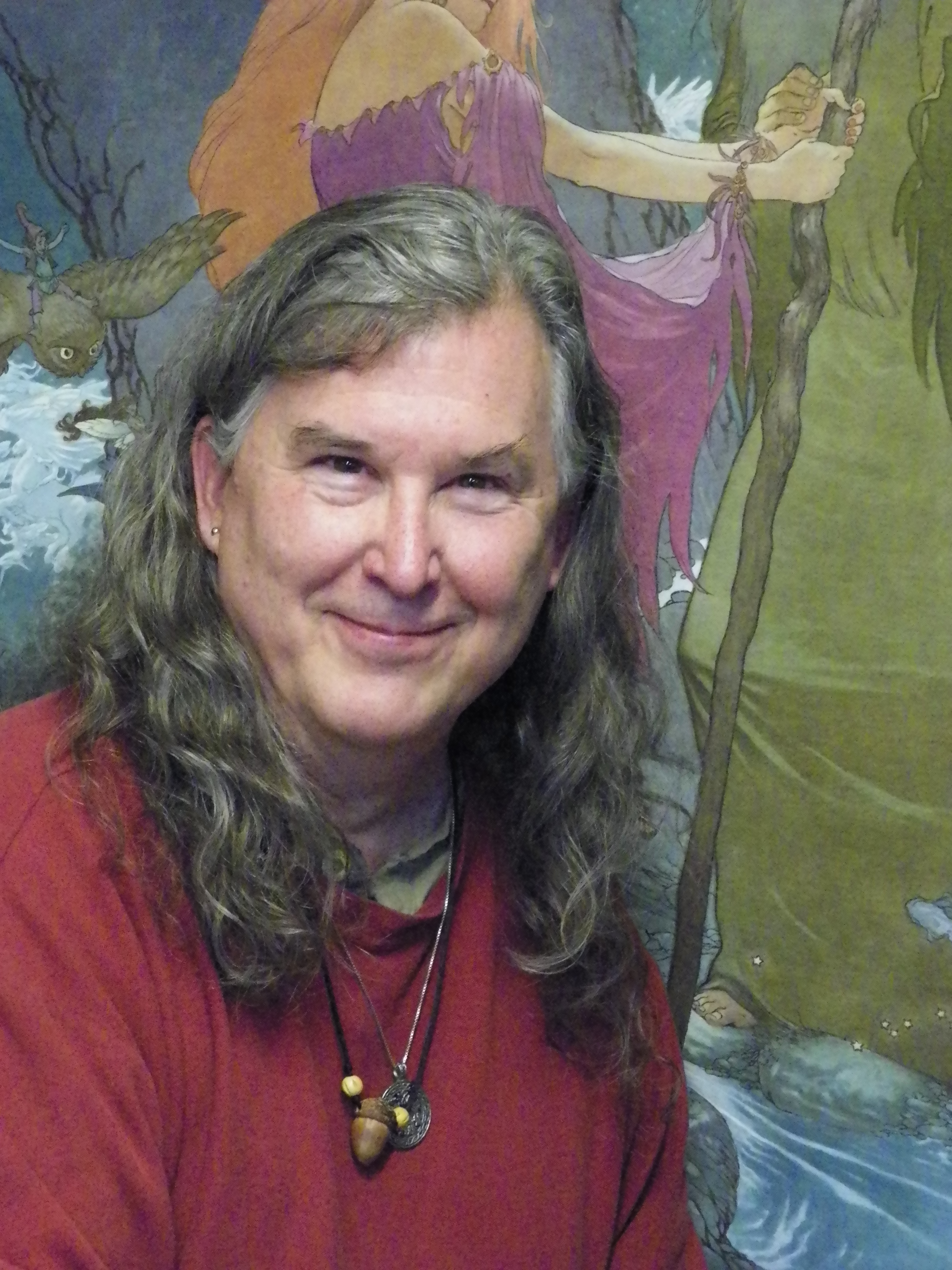 Portrait of Charles Vess in his studio 2013-01-05